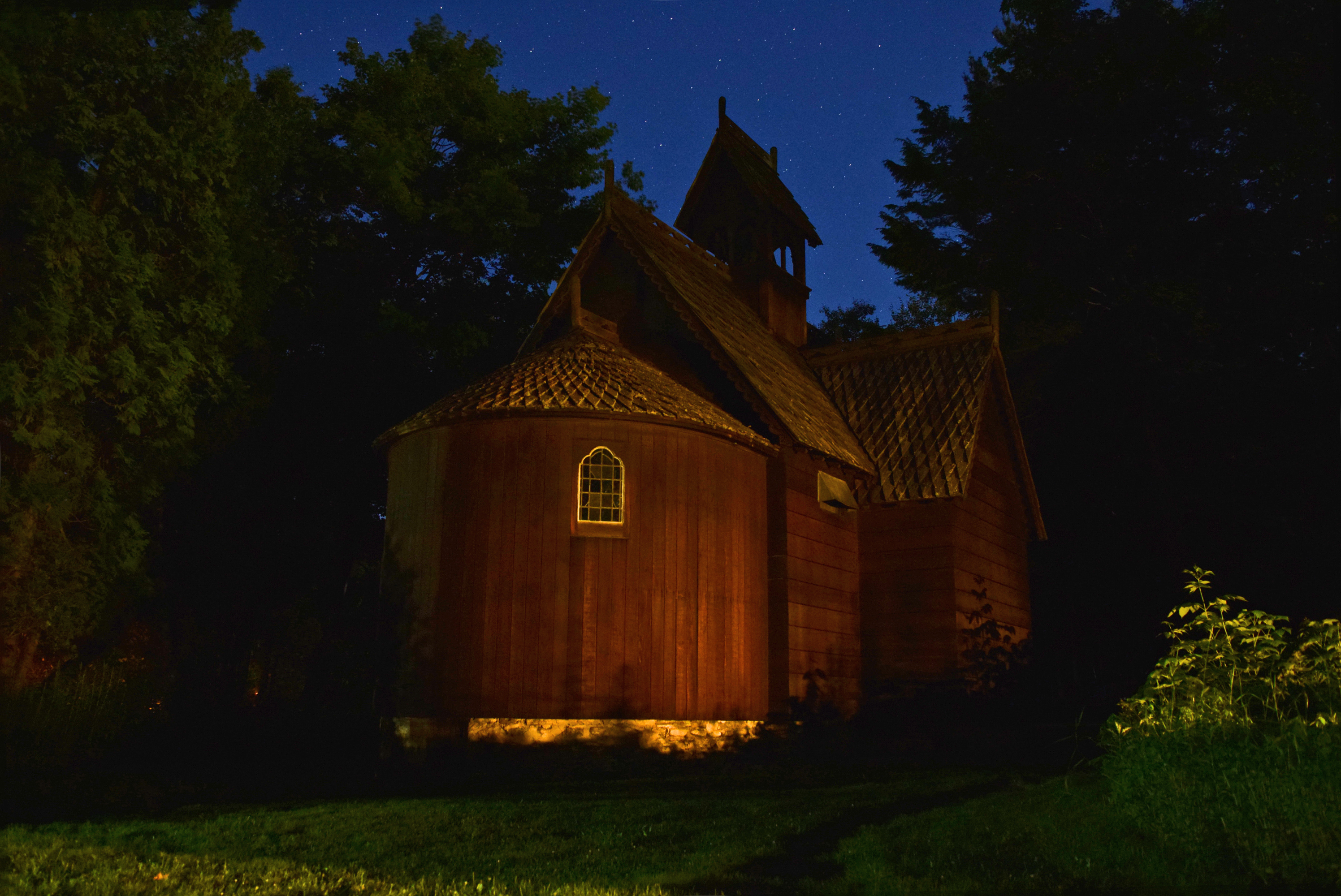 Night photo Chapel at Bjorklunden Baileys Harbor Wisconsin